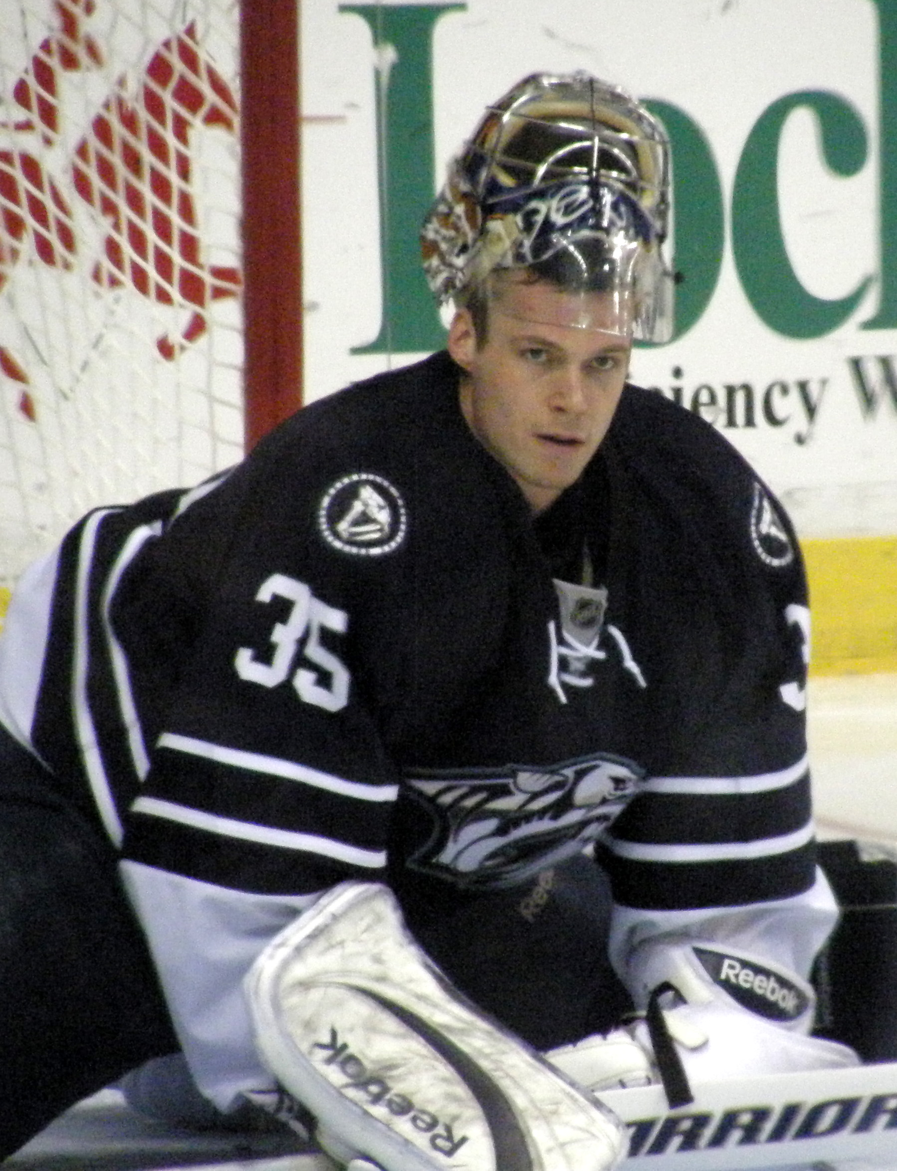 35, Pekka Rinne, G, NSH San Jose Sharks at Nashville Predators, February 6, 2010